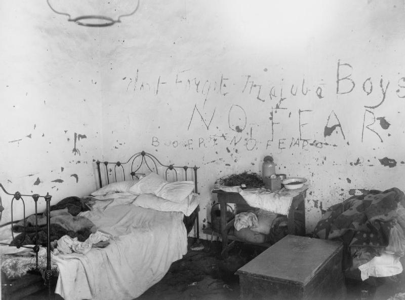 The Second Anglo - Boer War, South Africa 1899 - 1902 Graffiti scrawled by both sides on a bedroom wall in a house recaptured by British forces. The Boer graffiti reads: 'Don't forget Majuba, Boys'. The British grafitti reads: 'No fear, Boojers, no fear'. Majuba was a disastrous British defeat in the first Boer War of 1881.